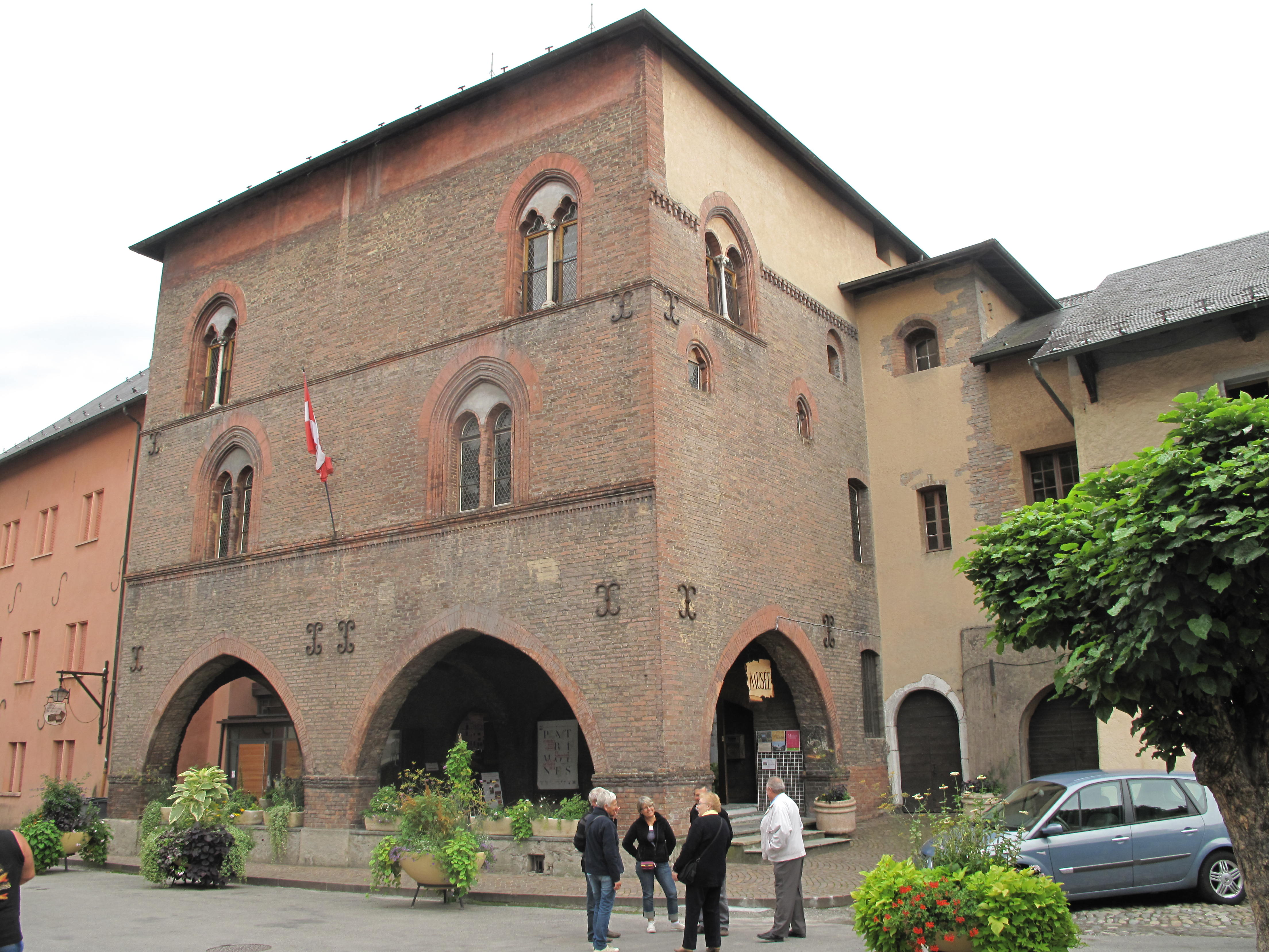 The Red house in Conflans (Savoie), France.